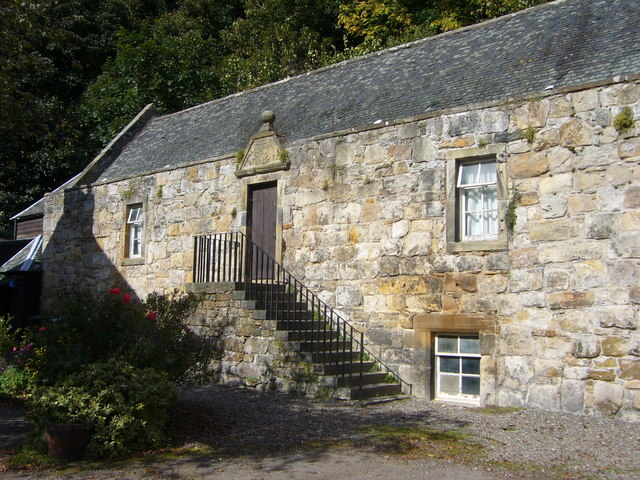 King's Cellar, Limekilns A grange (storehouse) for the collection of rents and tithes paid in grain to the monks of Dunfermline Abbey. The reason for its popular name has never been established, although it has presumably something to do with the fact that part of the Abbey was a royal residence known as the Palace. Some features of the grange indicate a 14thC origin. If ever 'bluid-red wine', i.e. French claret, as encountered in the ballad of Sir Patrick Spens, arrived by boat, then it could have been unloaded and held here on its way to the Abbey. The building was restored by the landowner, Lord Elgin, in 1911/12 and has been used since as a Masonic Lodge.